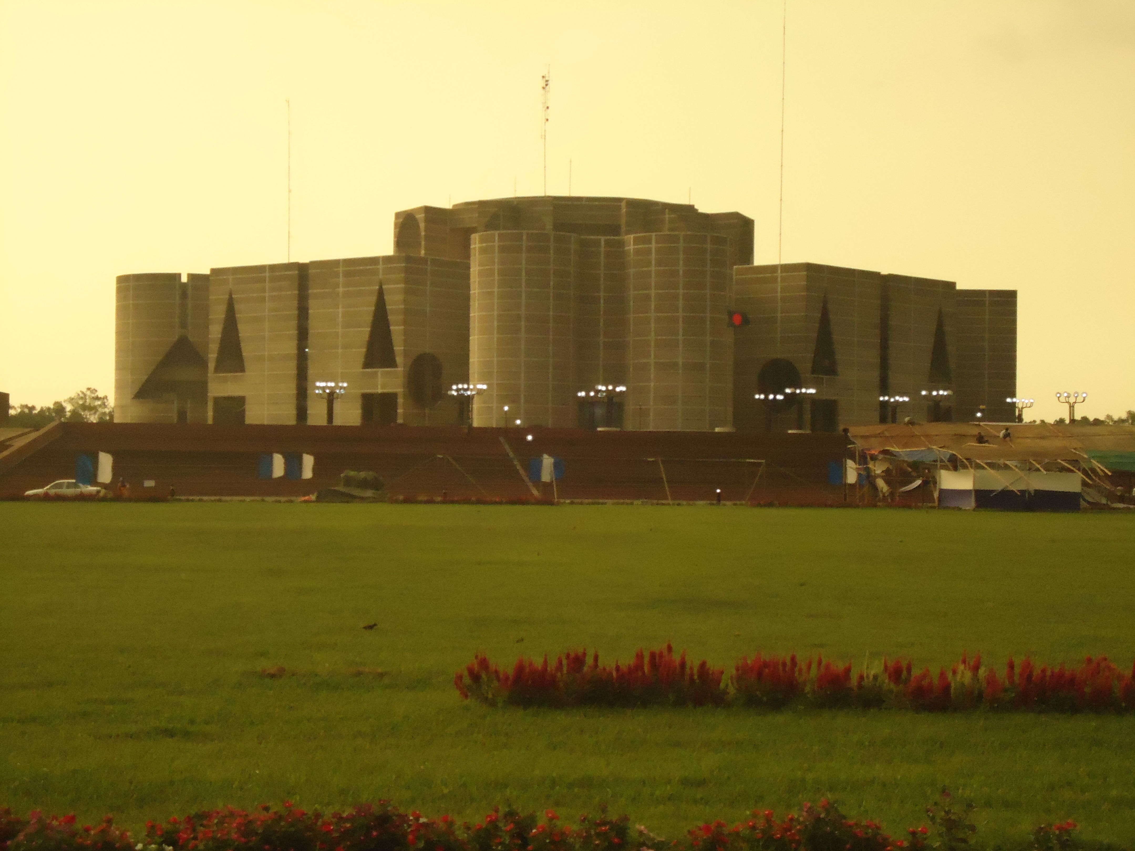 The Sangsad Bhaban latest view, Afternoon moments